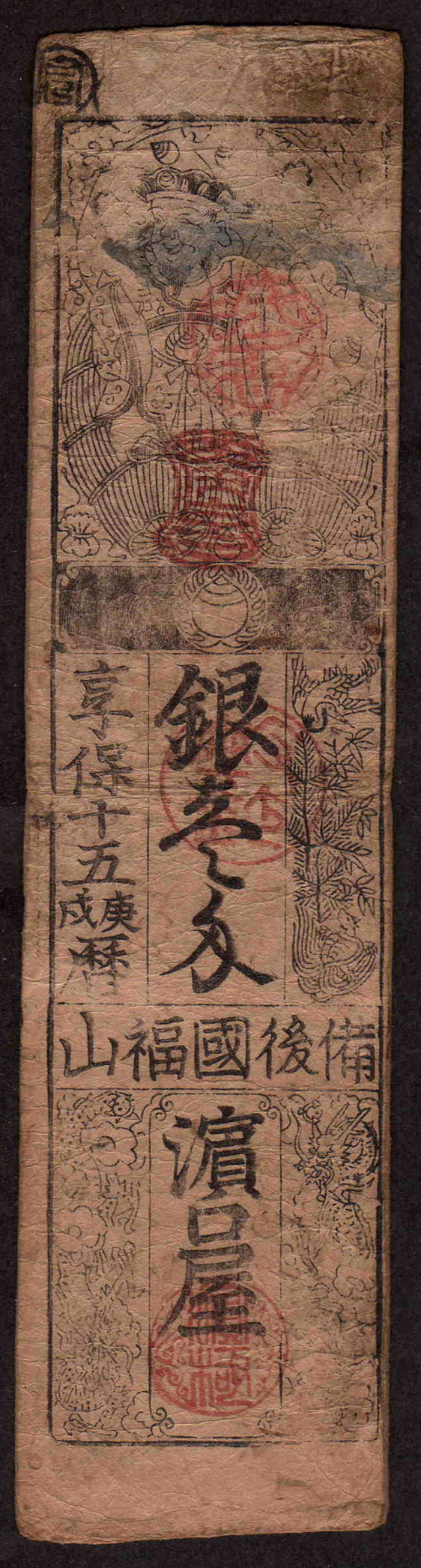 Scrip of Edo period Japan for Fukuyama-han Silver ome monme